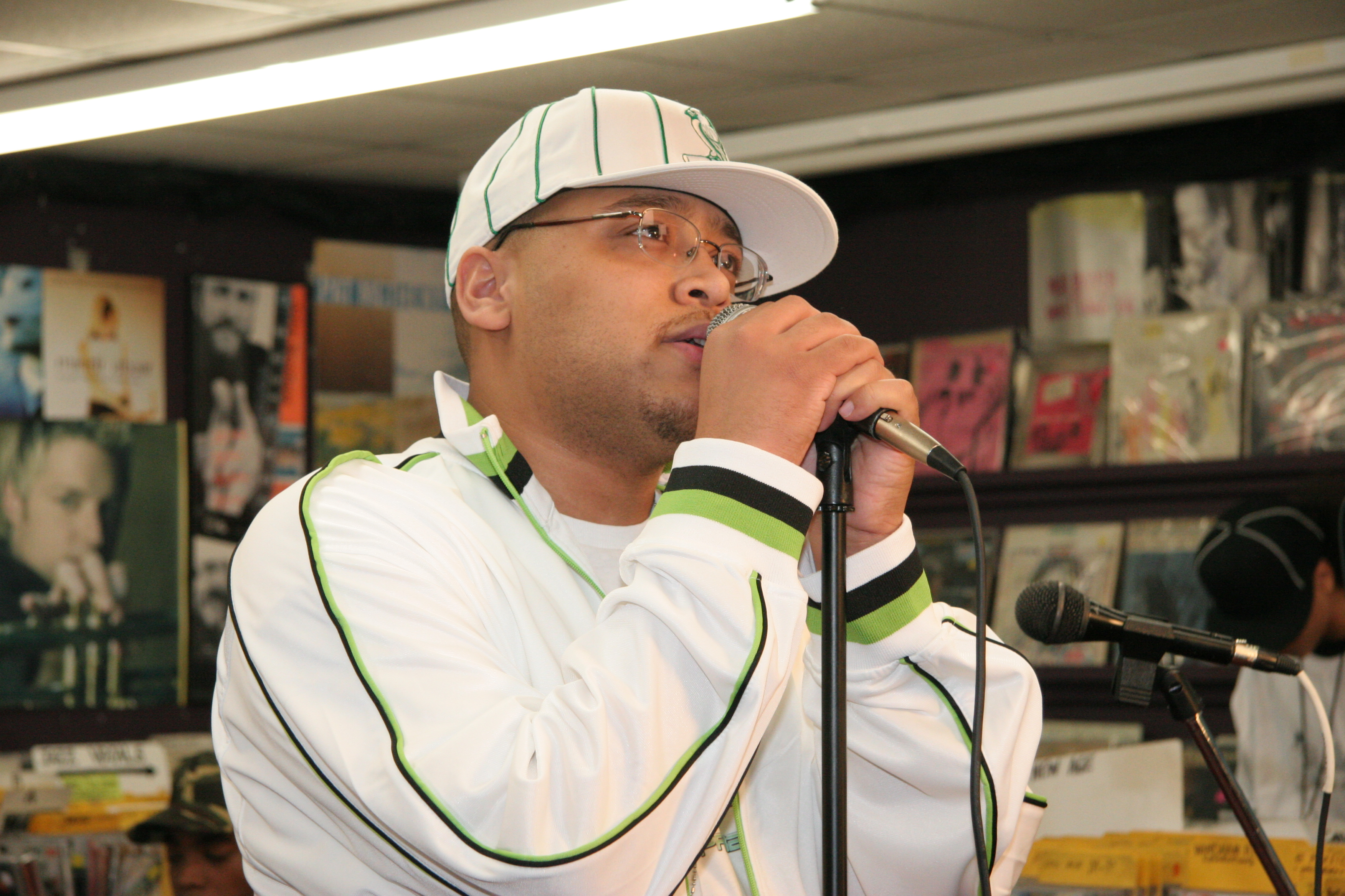 Praiz live at Vintage Vinyl.